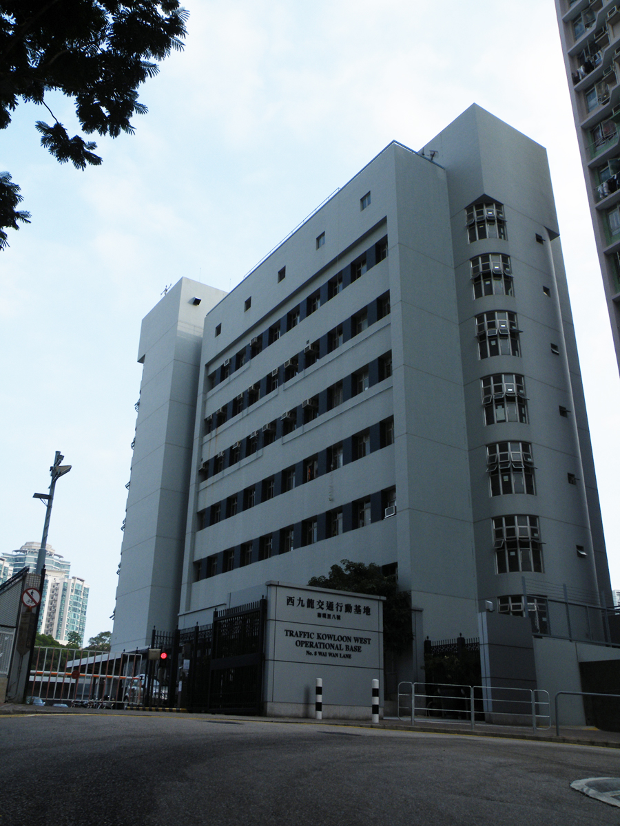 Taffic Kowloon West Optl Base